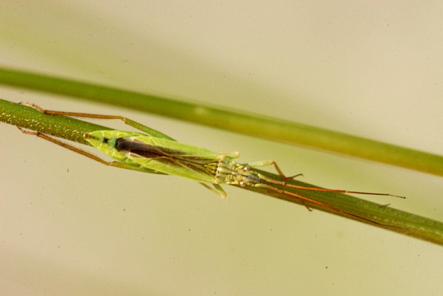 Notostira elongata from Commanster, Belgian High Ardennes .